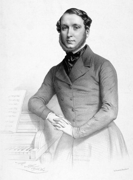 French composer and pianist Henri Rosellen (1811-1876) by Marie-Alexandre Alophe (1812-1883)